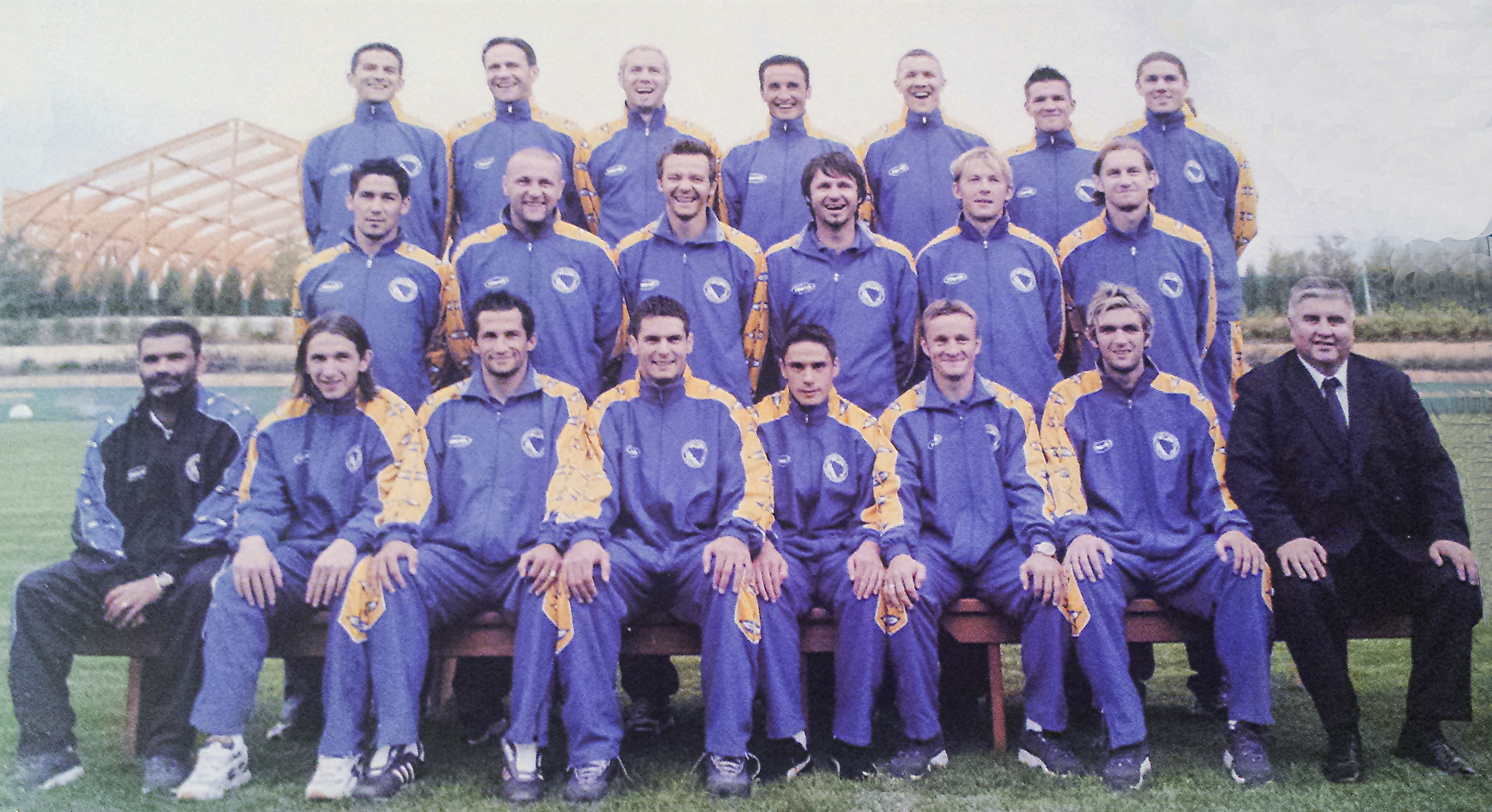 Group photo before qualifications for Euro 2004 got under way Bosnia and Herzegovina national football team in 2002